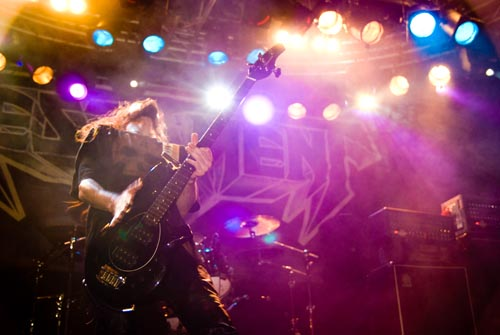 Testament, live at Hole In The Sky, Bergen Metal Fest 2007